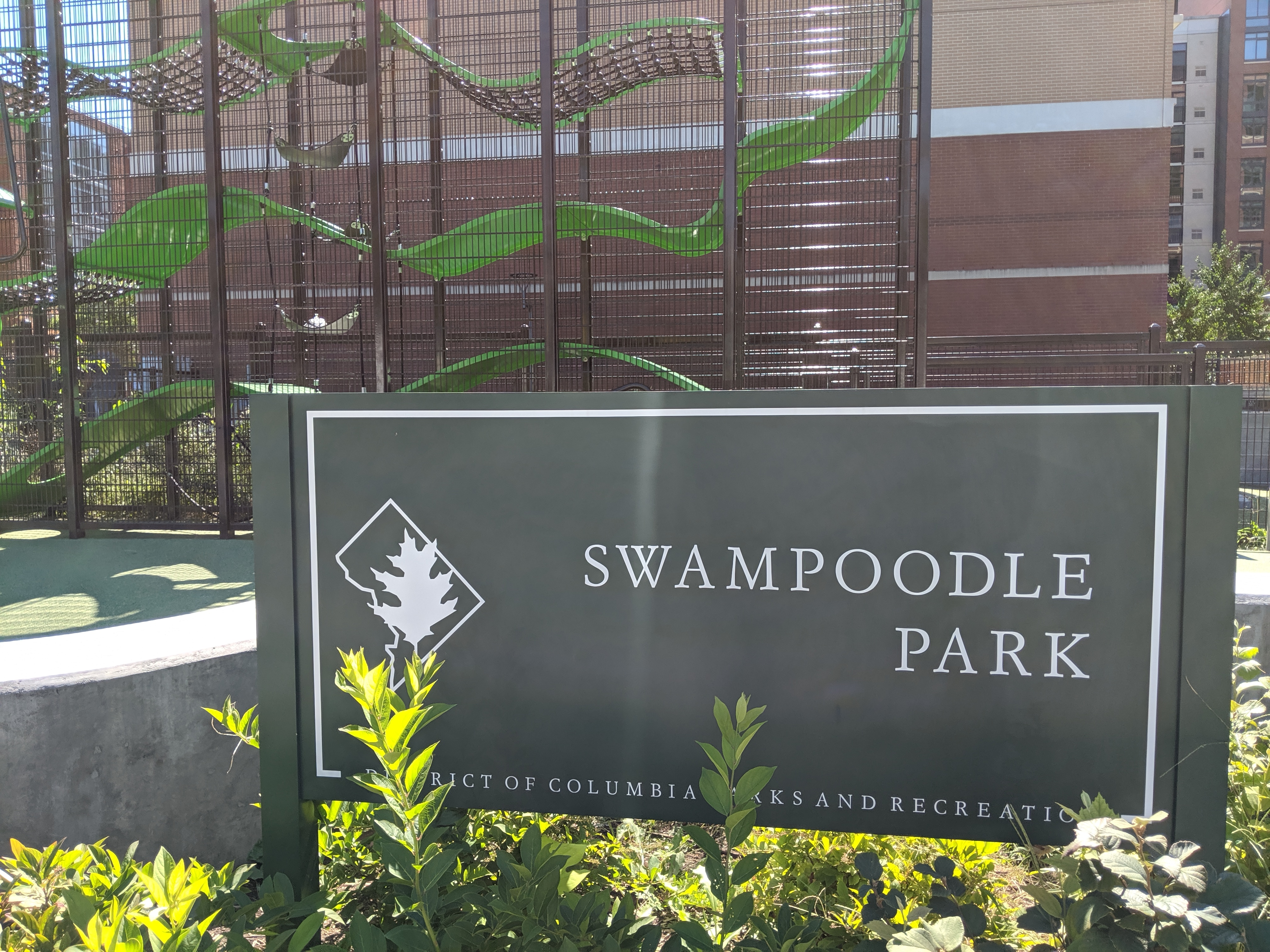 Swampoodle Park, NE Washington DC, corner of L Street and 3rd Street NE